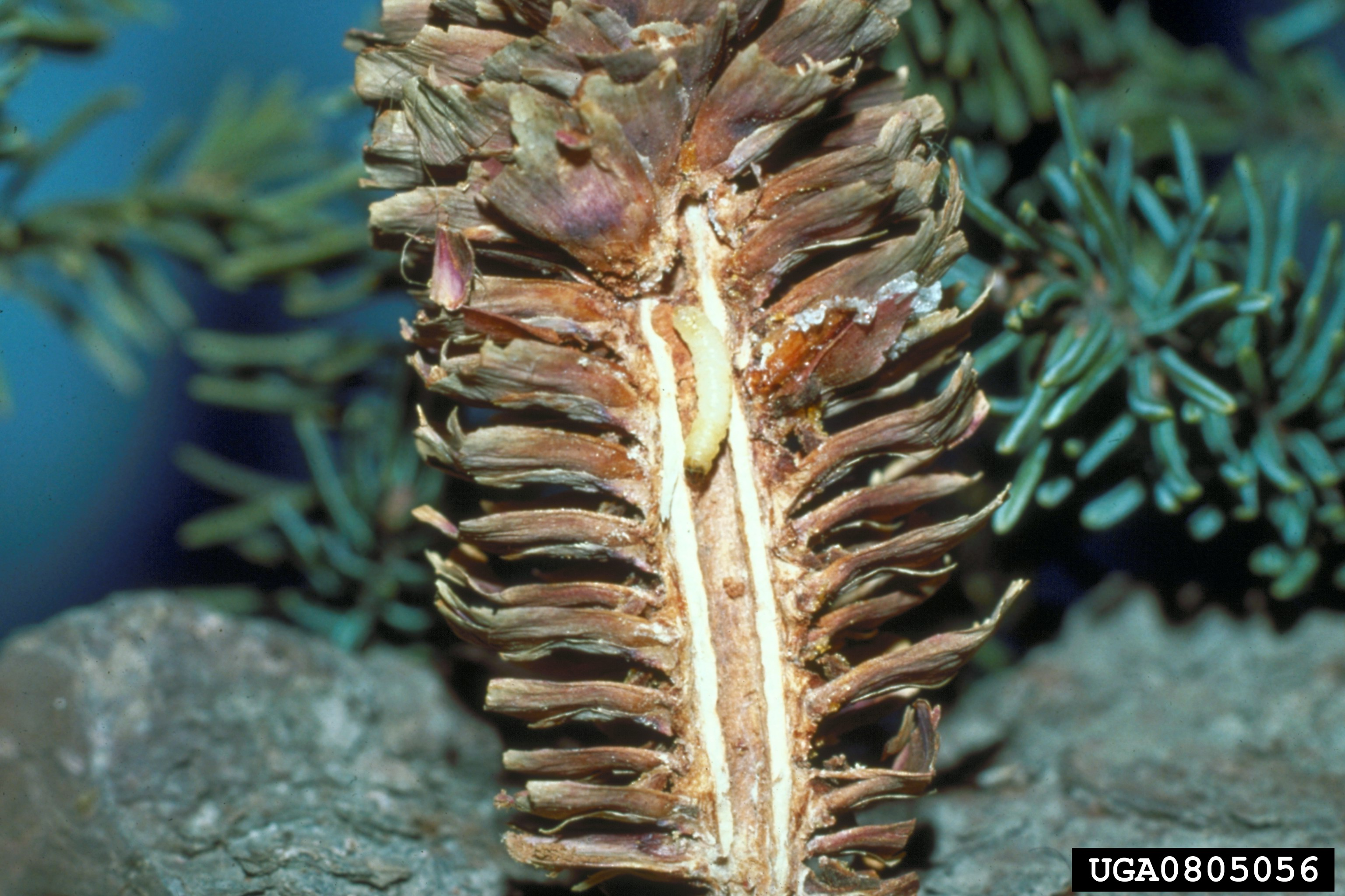 Larva of Spruce seed moth (Cydia strobilella)